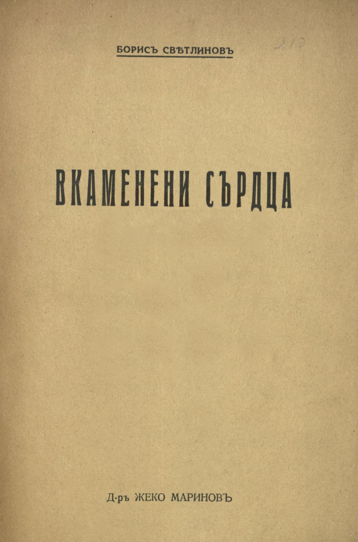 Cover of Vkameneni Sartsa by Boris Svetlinov